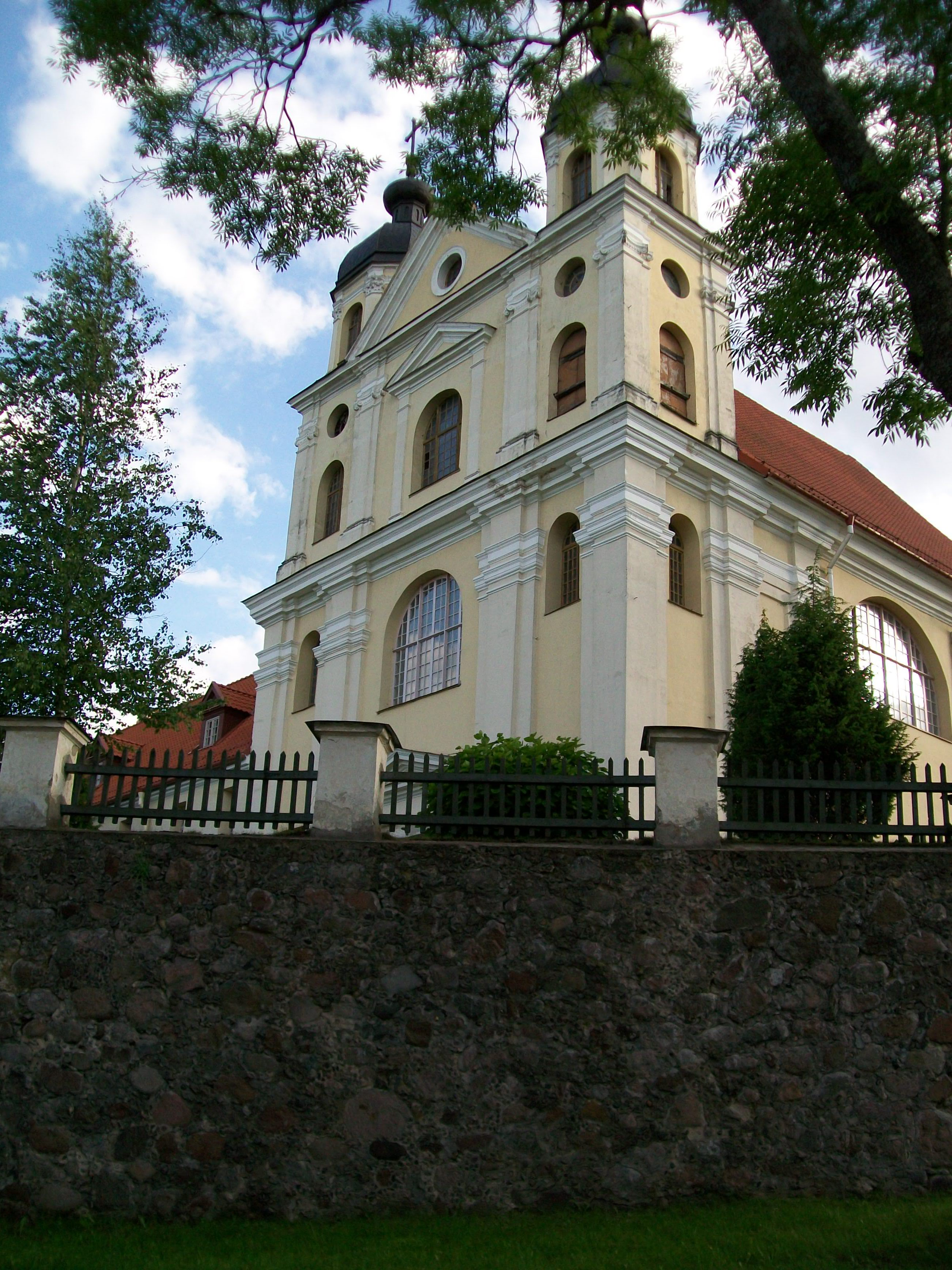 Church and monastery in Trinapolis, Lithuania